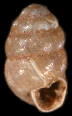 Photo of a shell of Vertigo pygmaea. Locality: Germany: Kalkeifel, Bruchbach near Schwerten. Date: 07-03-1963.